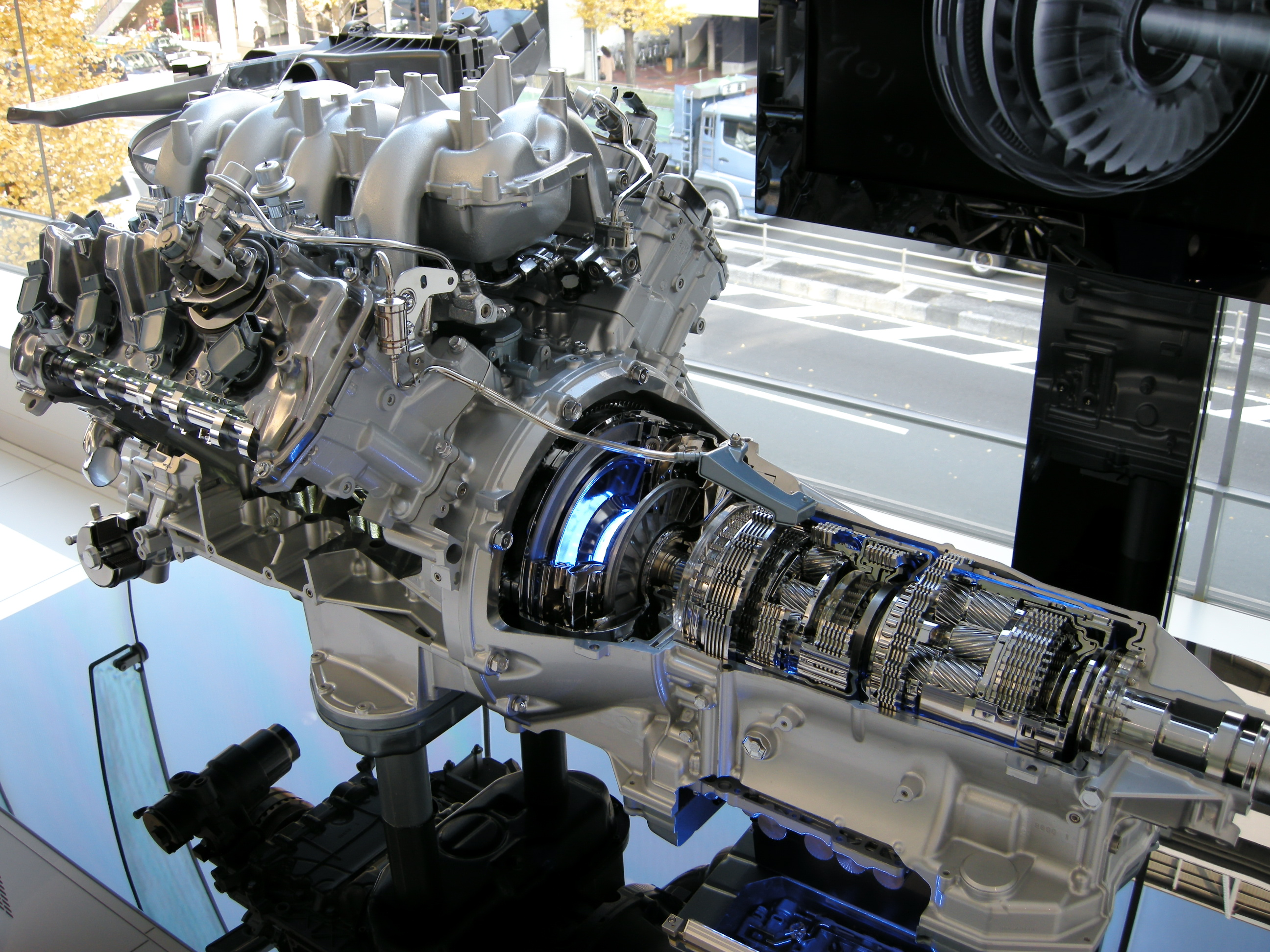 Toyota 2UR-GSE Engine + 8-Speed Automatic Transmission Cutmodel on Lexus IS F